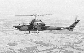 Bell 309 KingCobra helicopter